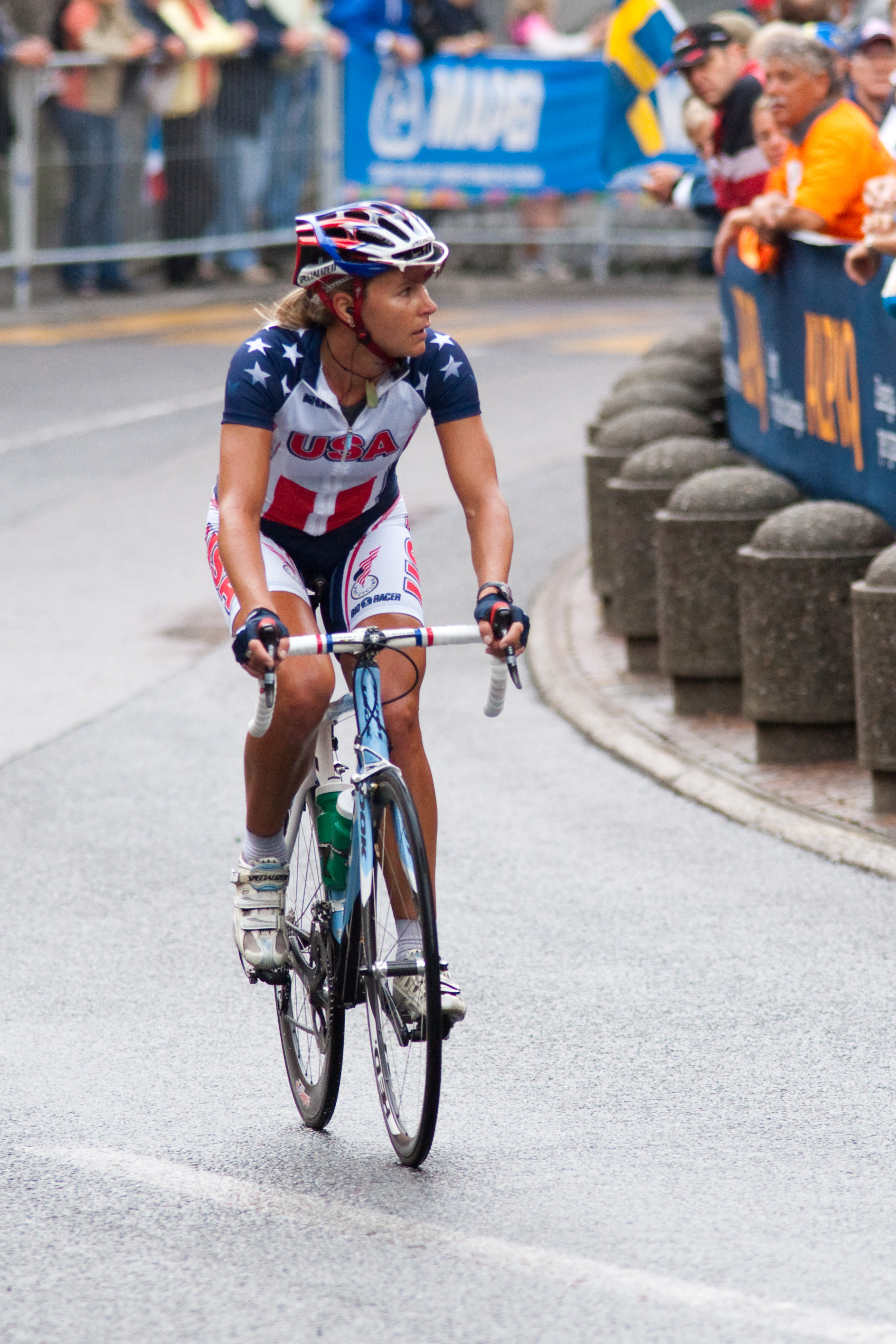 Meredith Miller during the 2009 UCI Road World Championships in Mendrisio, Switzerland.